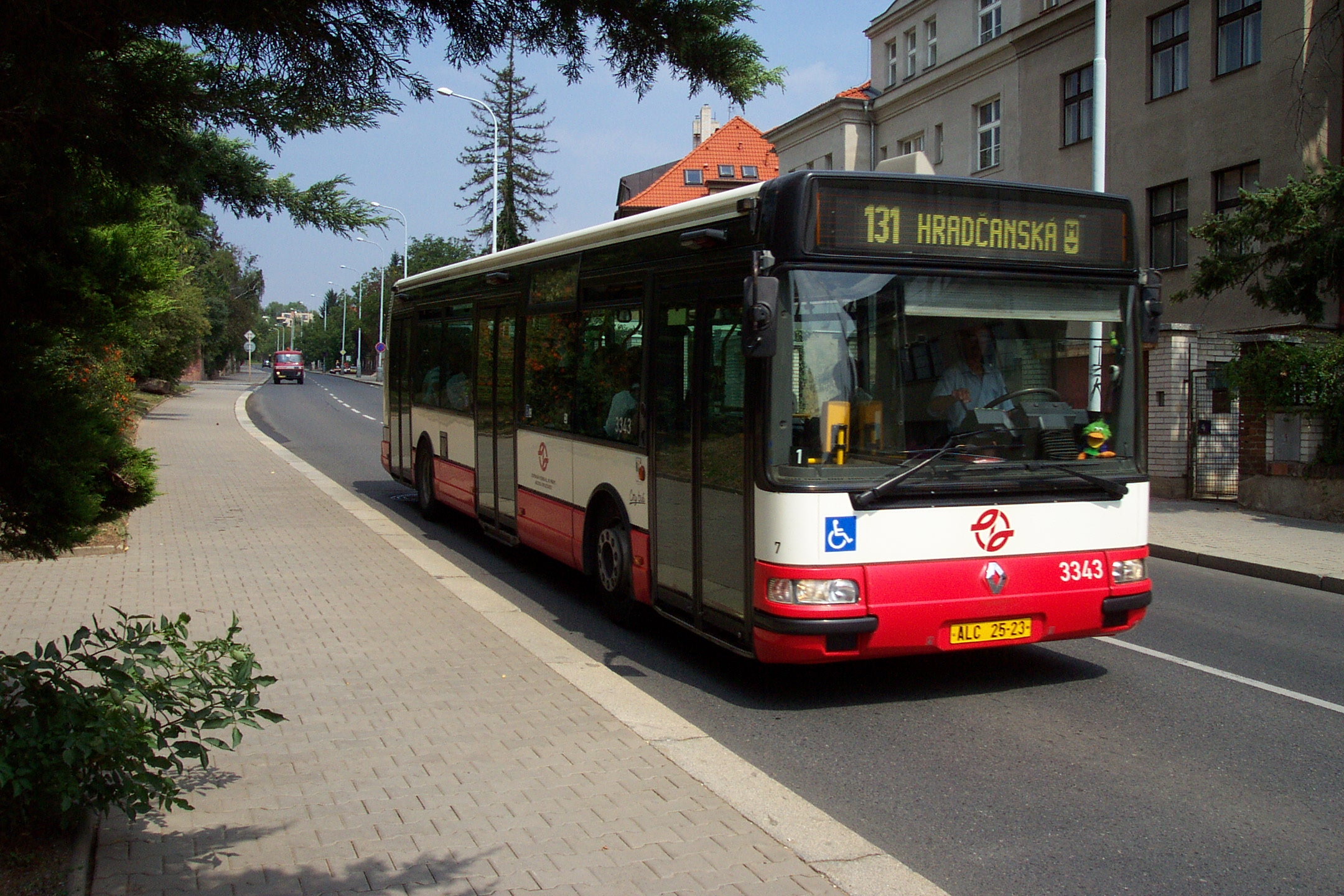 DP Praha bus in Prague Dejvice